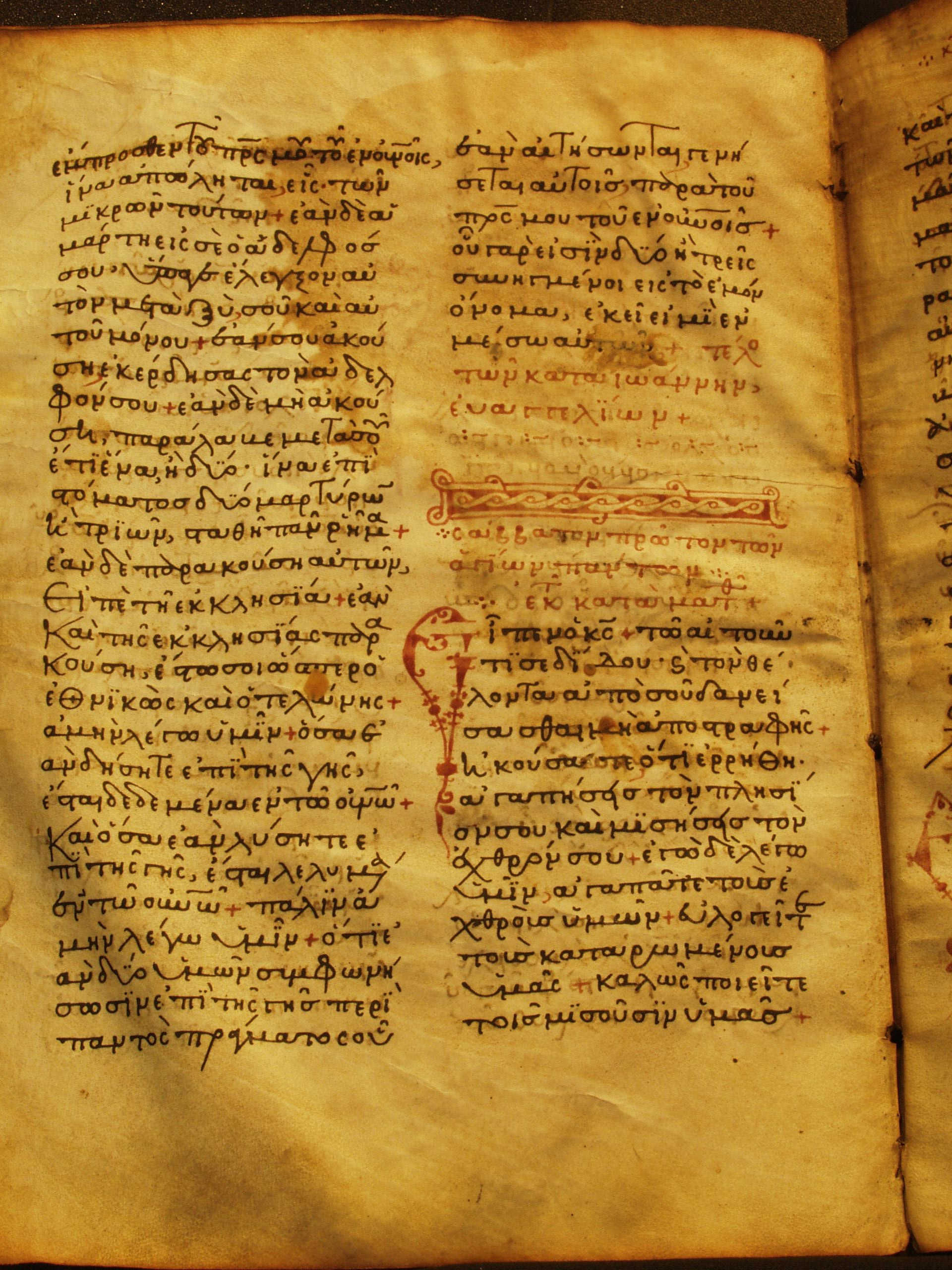 folio 5v